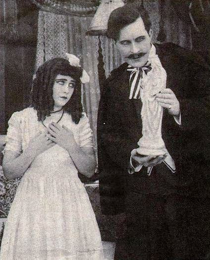 Still with William Desmond Taylor and Margaret Gibson aka Patricia Palmer, identified as the film A Little Madonna (1914) by the small statue / figurine Taylor is holding, on page 9 of the December 1915 Movie Pictorial. The caption to the still in the magazine for an article on Taylor does not identify the film, it only states "His vivid portrayal of varied character parts."